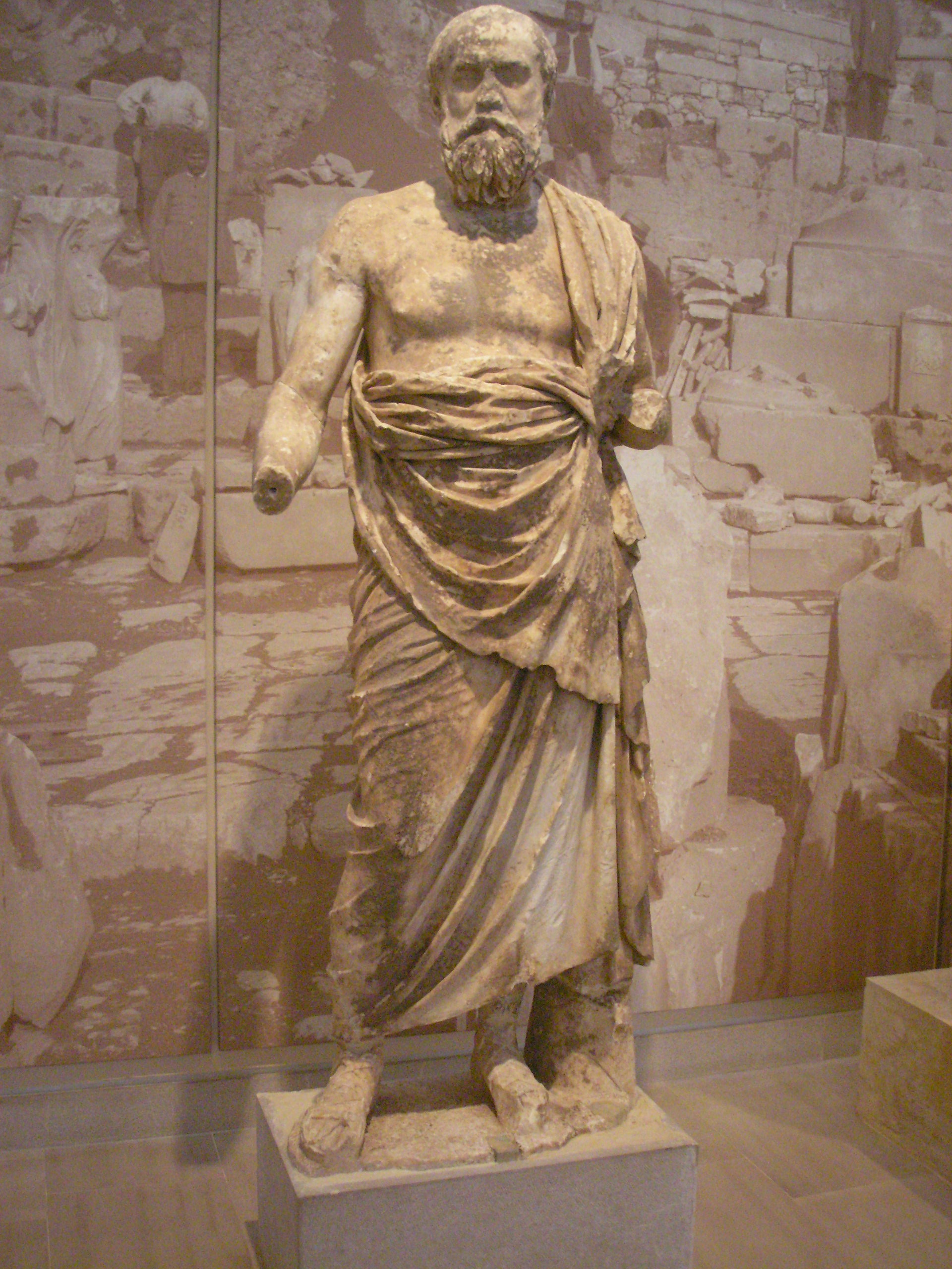 Statue of a philosopher, said to be either Plutarch or Plato, at Delphi Archaeological Museum in Greece .